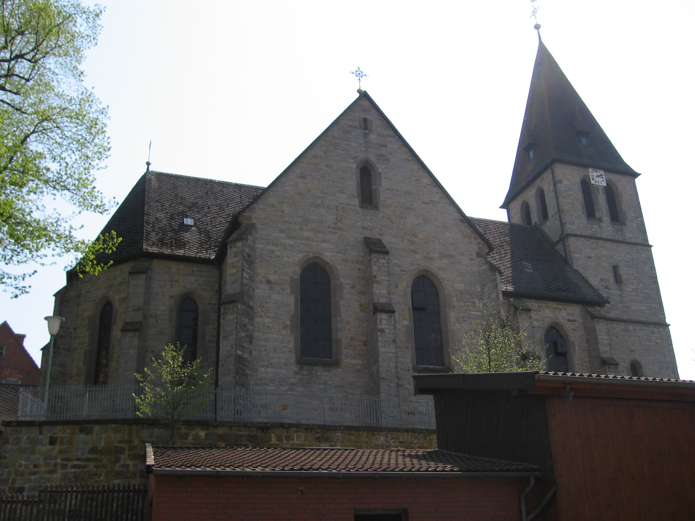 Church of the German village Iggenhausen in North Rhine-Westphalia.